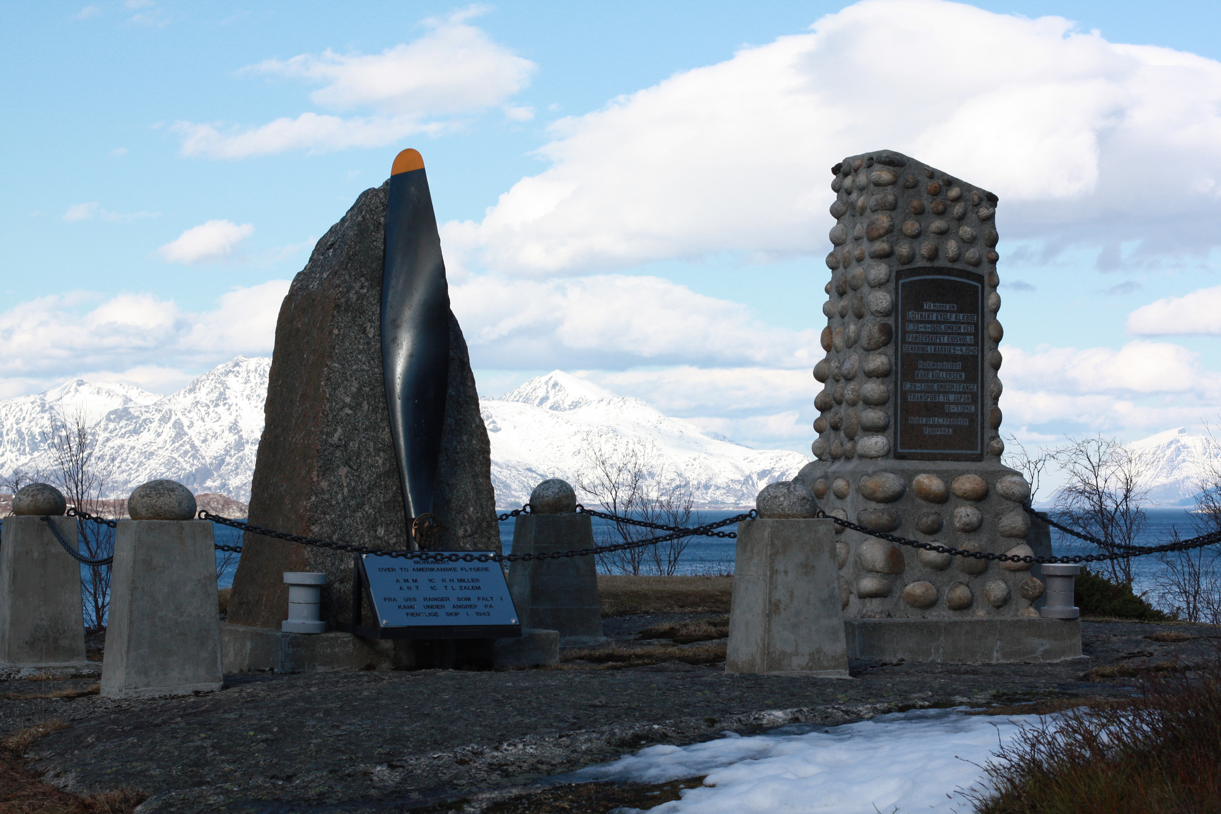 Memorial for U.S. Navy airmen Torpedo Squadron 4 (VT-4) from the aircraft carrier USS Ranger (CV-4), lost on 4 October 1943 during "Operation Leader": Zalom, Joseph Louis, 611-03-03 ART/C, USNR, V-6 and Miller, Reginald Hayman, 268-54-39 AMM/C, USNR. The pilot, Lt. (jg) John Higbie Palmer, 106412 AVN, USNRF, survived. The propeller blade was retrieved from the sunken wreck of the Grumman TBF-1 Avenger.